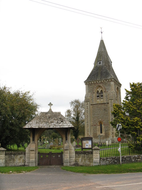 Parish church of SS Peter and Paul, Stoke Lacy, Herefordshire, seen from the west